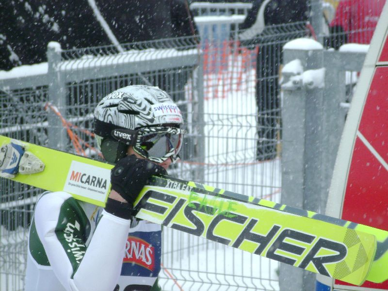 ski jumper Guido Landert from Switzerland during the World Cup in Zakopane on 27-1-2008